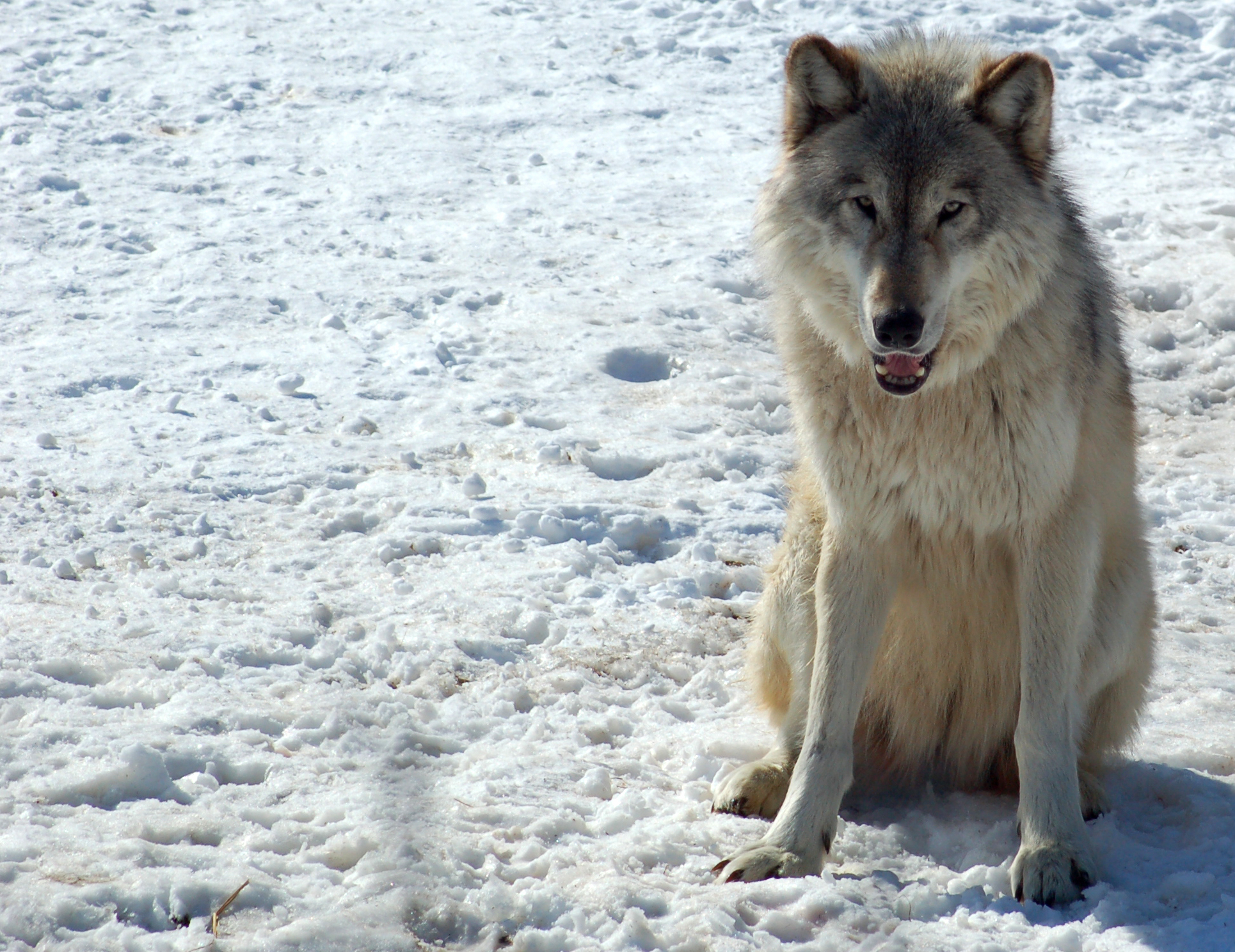 A captive Gray Wolf at the Wildlife Science Center in Minnesota.